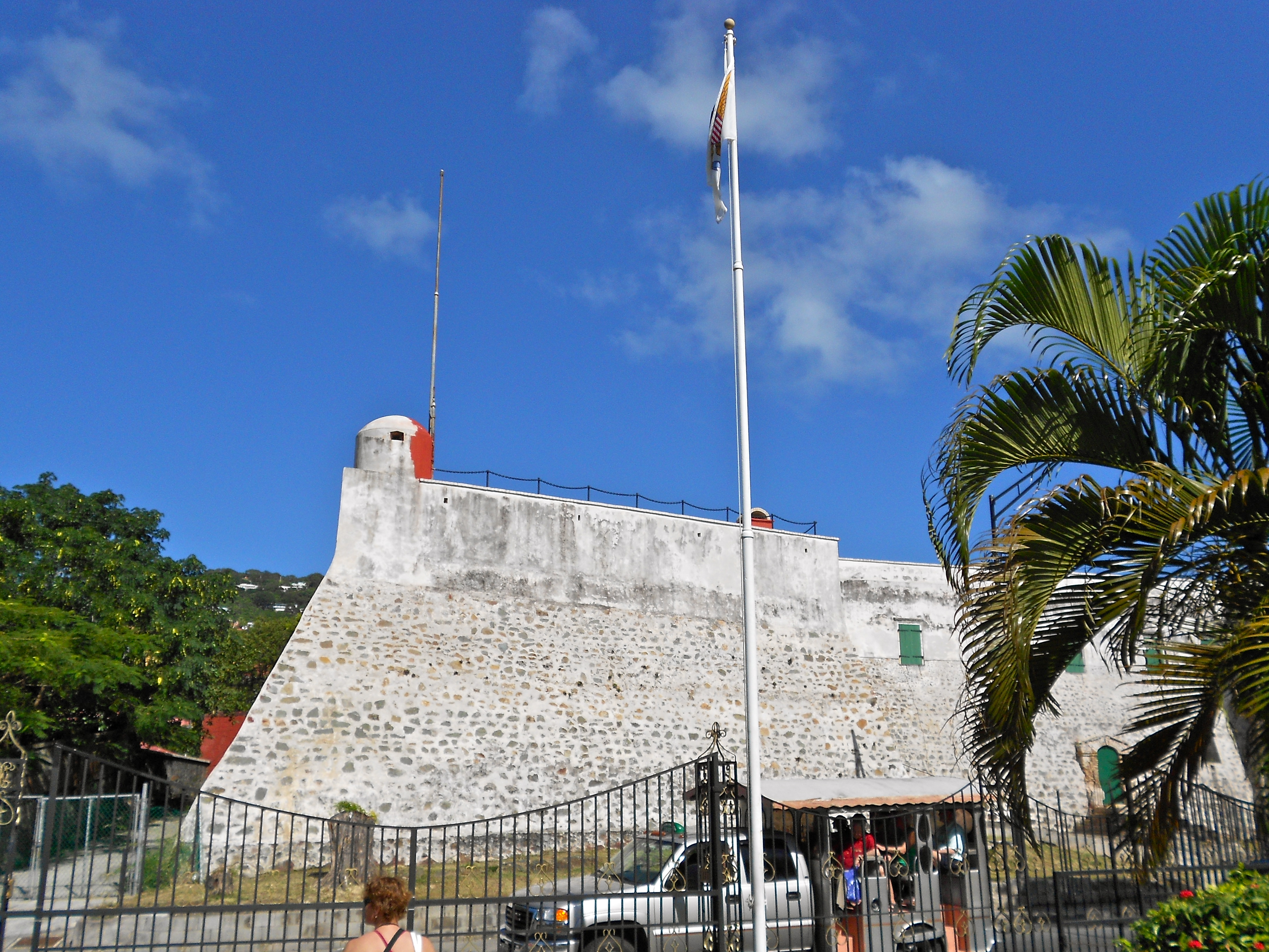 Stone bastion wall of Fort Christian — at Saint Thomas Harbor in Charlotte Amalie on St. Thomas, U.S. Virgin Islands. The mid-17th century colonial Danish fort is the oldest structure in the United States Virgin Islands. On the National Register of Historic Places in the United States Virgin Islands since May 5, 1977.